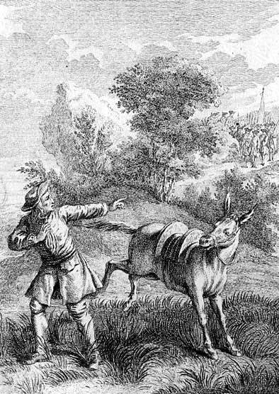 Jean-Baptiste Oudry's illustration of La Fontaine's fable, "Le vieillard et l'ane", 1729-34